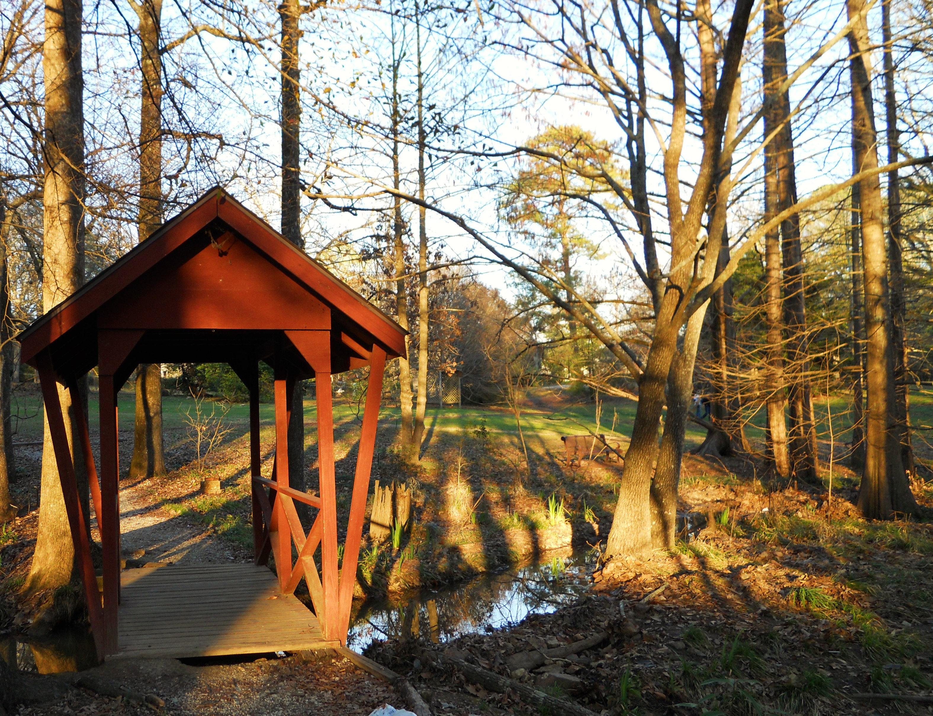 This is a photograph of the Donald E. Davis Arboretum located on the campus of Auburn University in Auburn, Alabama.